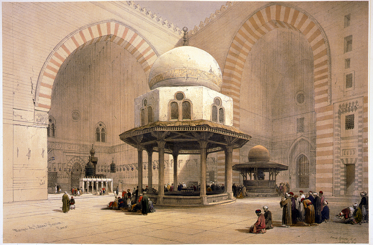 Picture of a print from David Roberts' Egypt & Nubia, issued between 1845 and 1849.